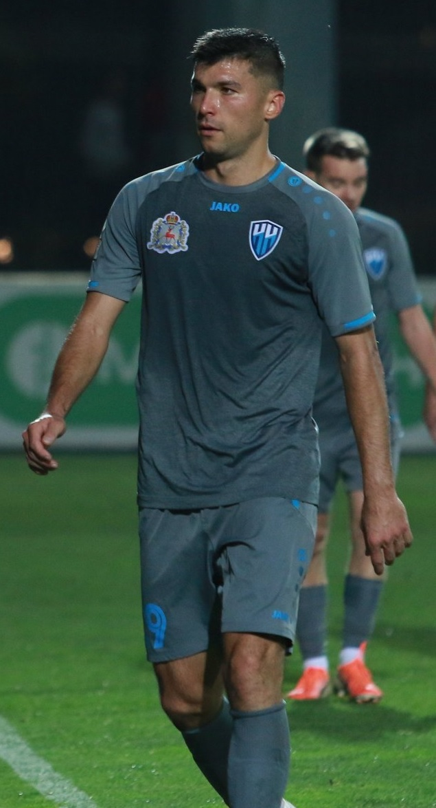 Vladimir Khozin with FC Nizhny Novgorod in a game against FC Krasnodar-2.